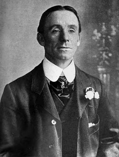 A photograph of Dan Leno, reproduced in The Graphic, 9 November 1904, p. 91, although taken a few years earlier (date unknown). This image has been altered from its source. It has been adjusted for brightness, contrast and cropping.